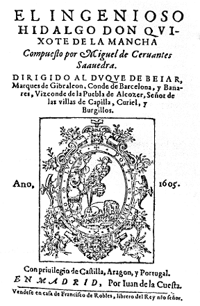 Don Quixote - The title page of the 4th edition